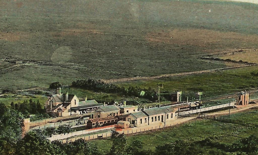 Lydford railay station in Devon. A Great Western Railway train is heading towards Tavistock behind a tank locomotive which is running bunker first.